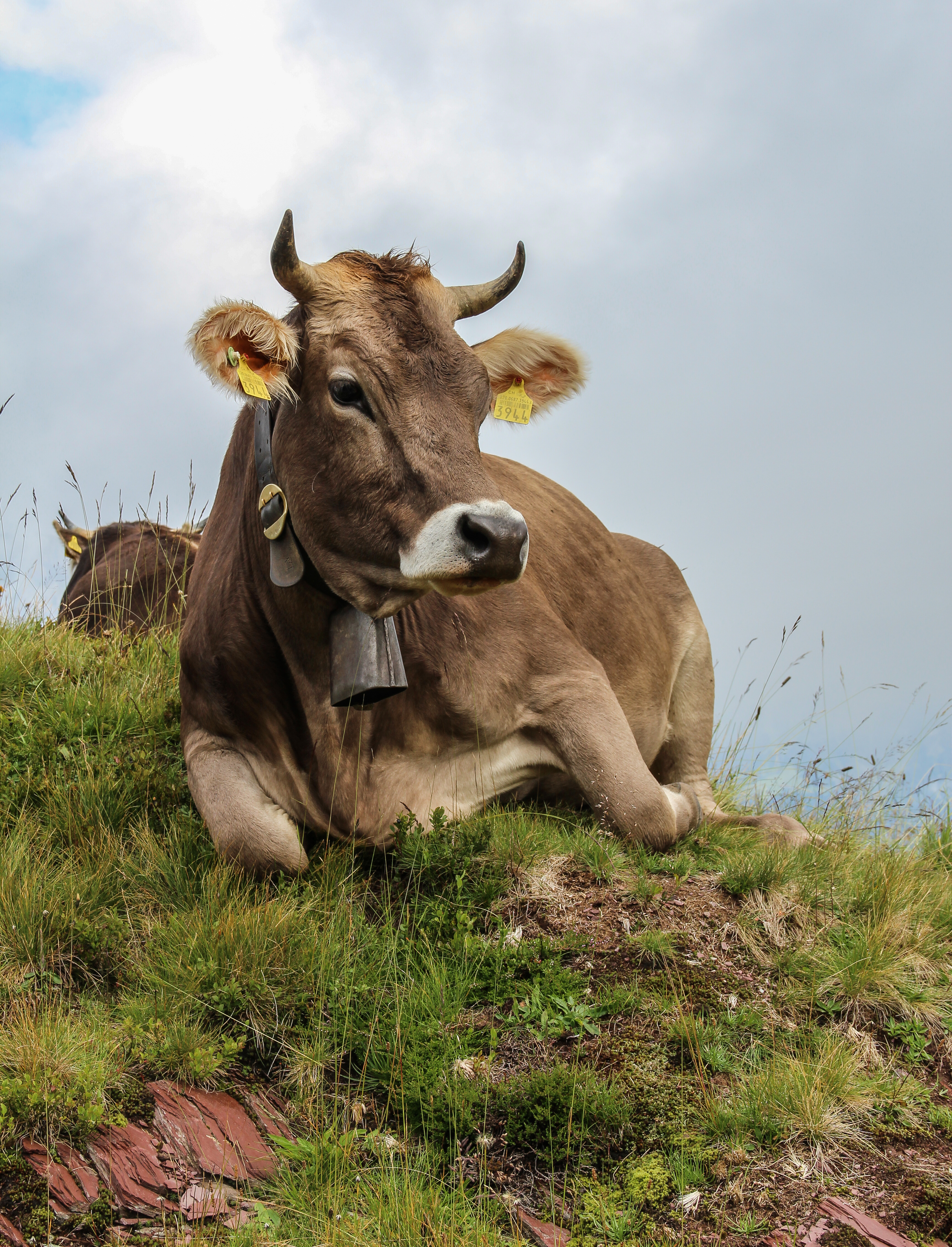 Cow (Braunvieh) at Flumserberg (near Walensee, Switzerland)